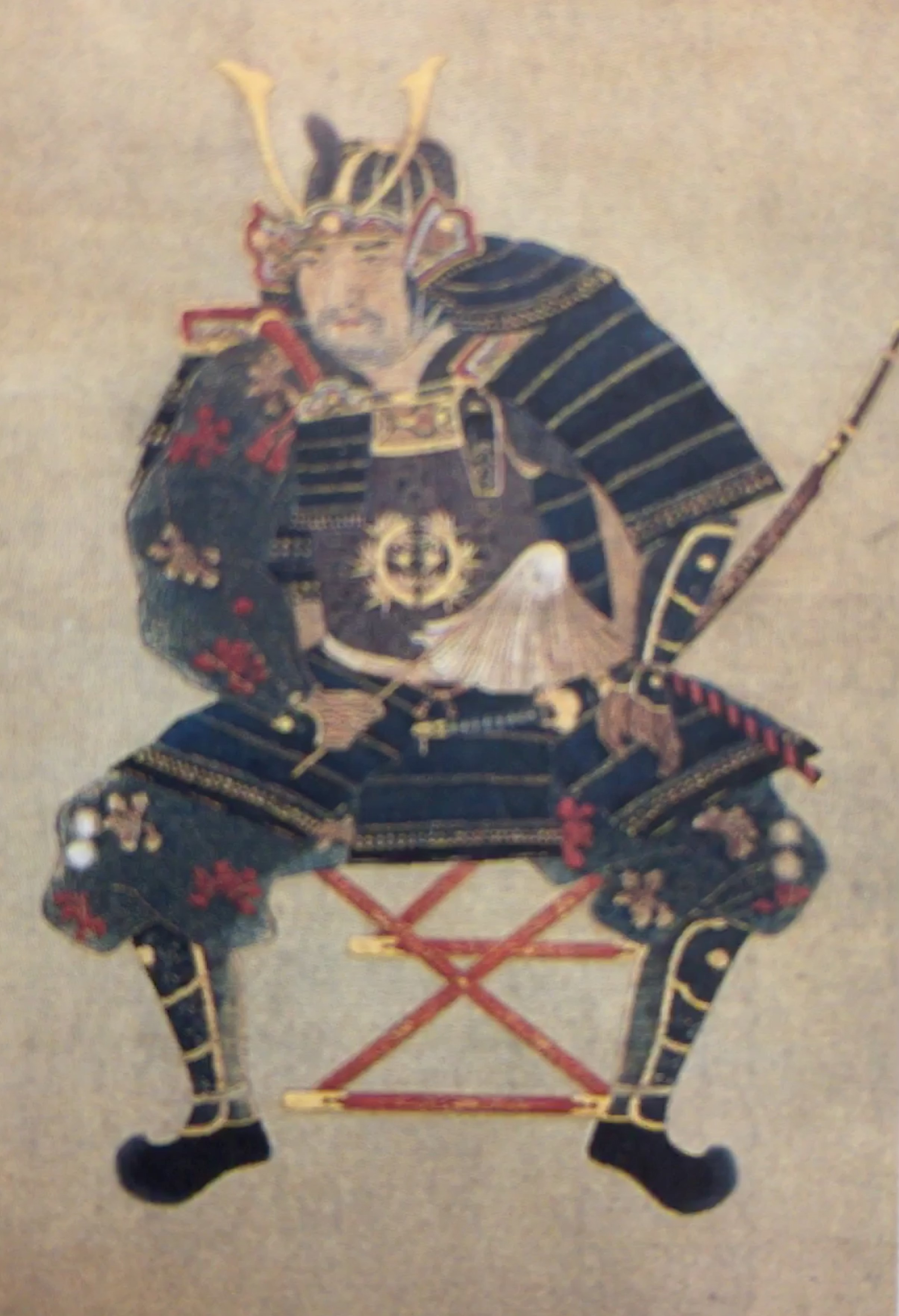 Portrait of Date Shigezane.